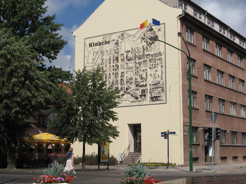 Map of the Old Town of Klaipeda, Lithuania